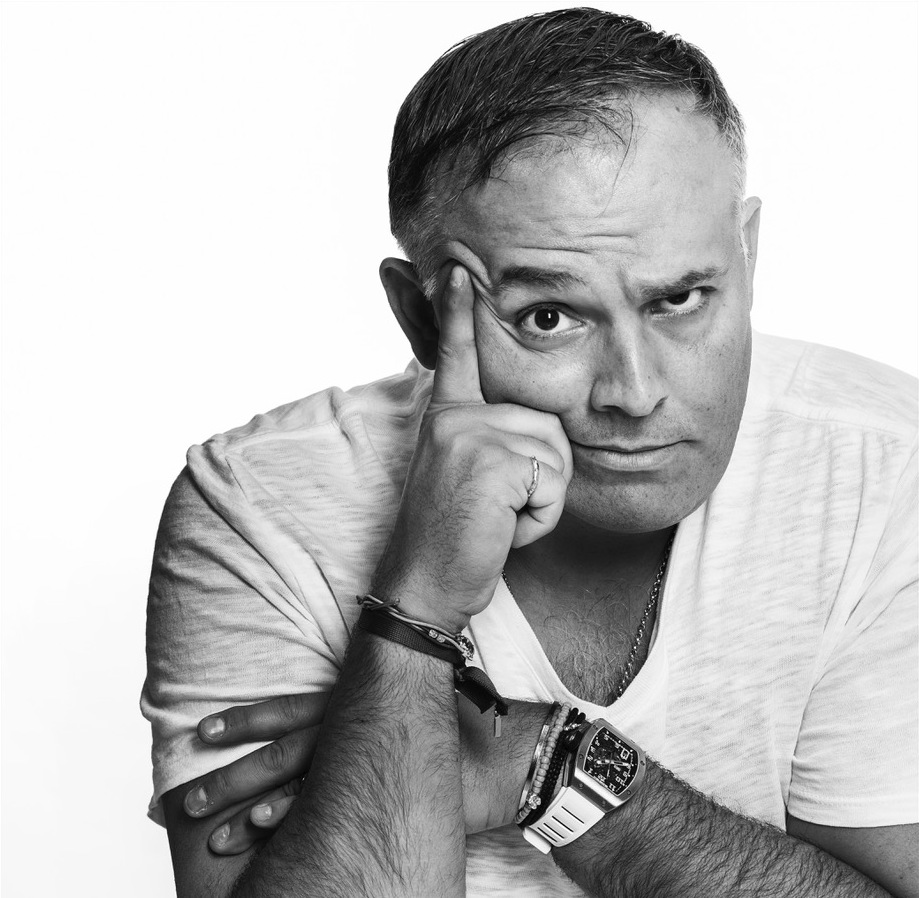 Photograph of Vincenzo Guzzo